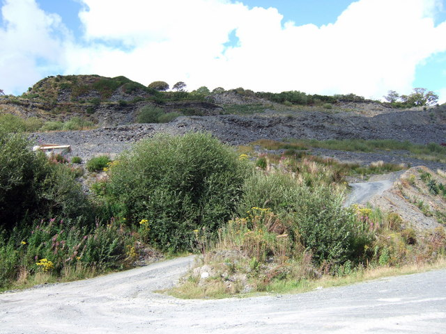 Old slate quarry at Glogue Slate extraction probably started here in a small way at the end of the C18 but output only picked up in the 1820s and 30s. It grew substantially during the second half of the C19, peaking in 1873 when 80 men were employed, producing 2000 tons of slate a year. It was also in 1873 that the railway finally opened, with the purpose of easing the transport out. Production slowed down in the C20 and the quarry was worked by a local syndicate until it closed in 1926.